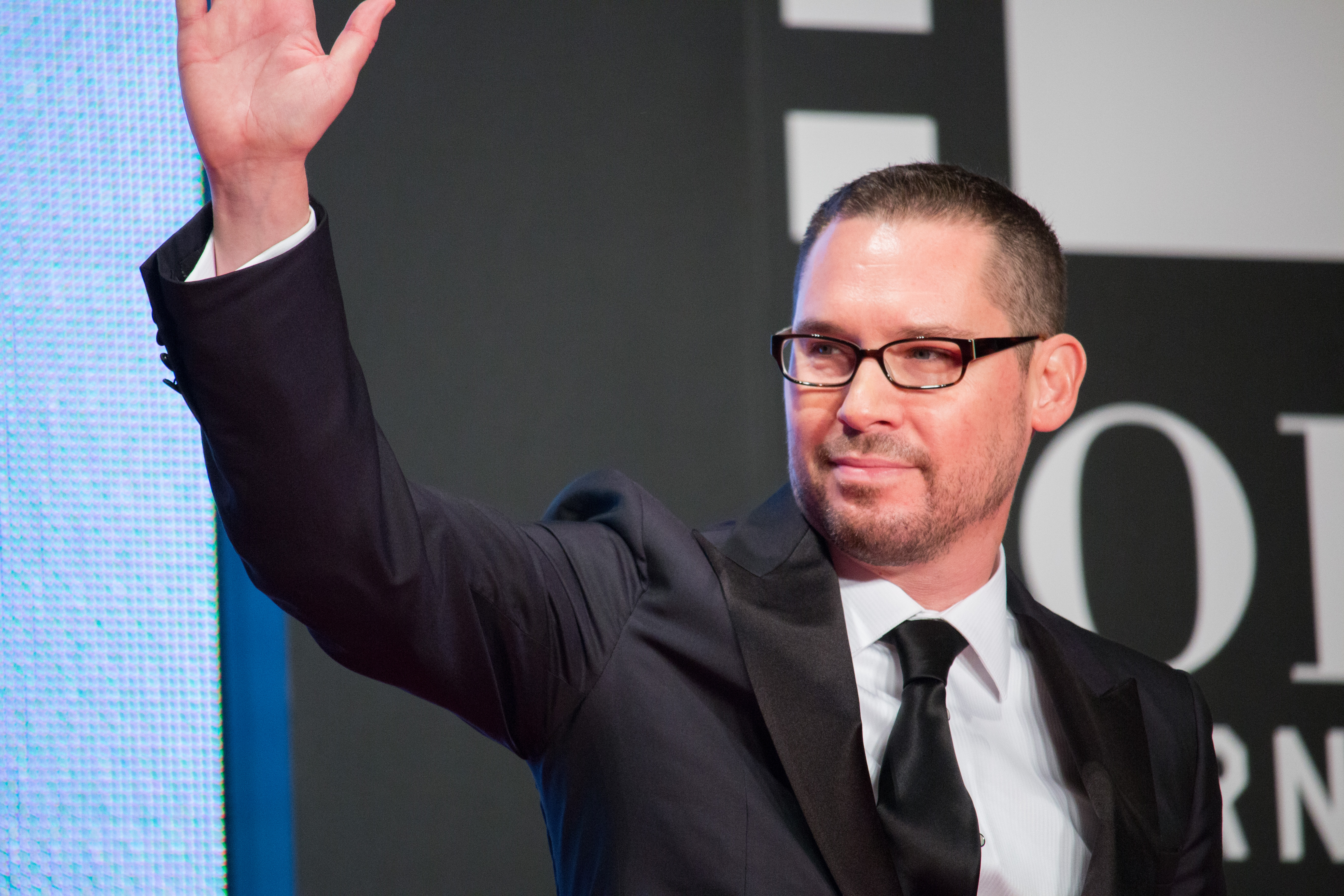 Bryan Singer "International Competition Jury" at Opening Ceremony of the 28th Tokyo International Film Festival